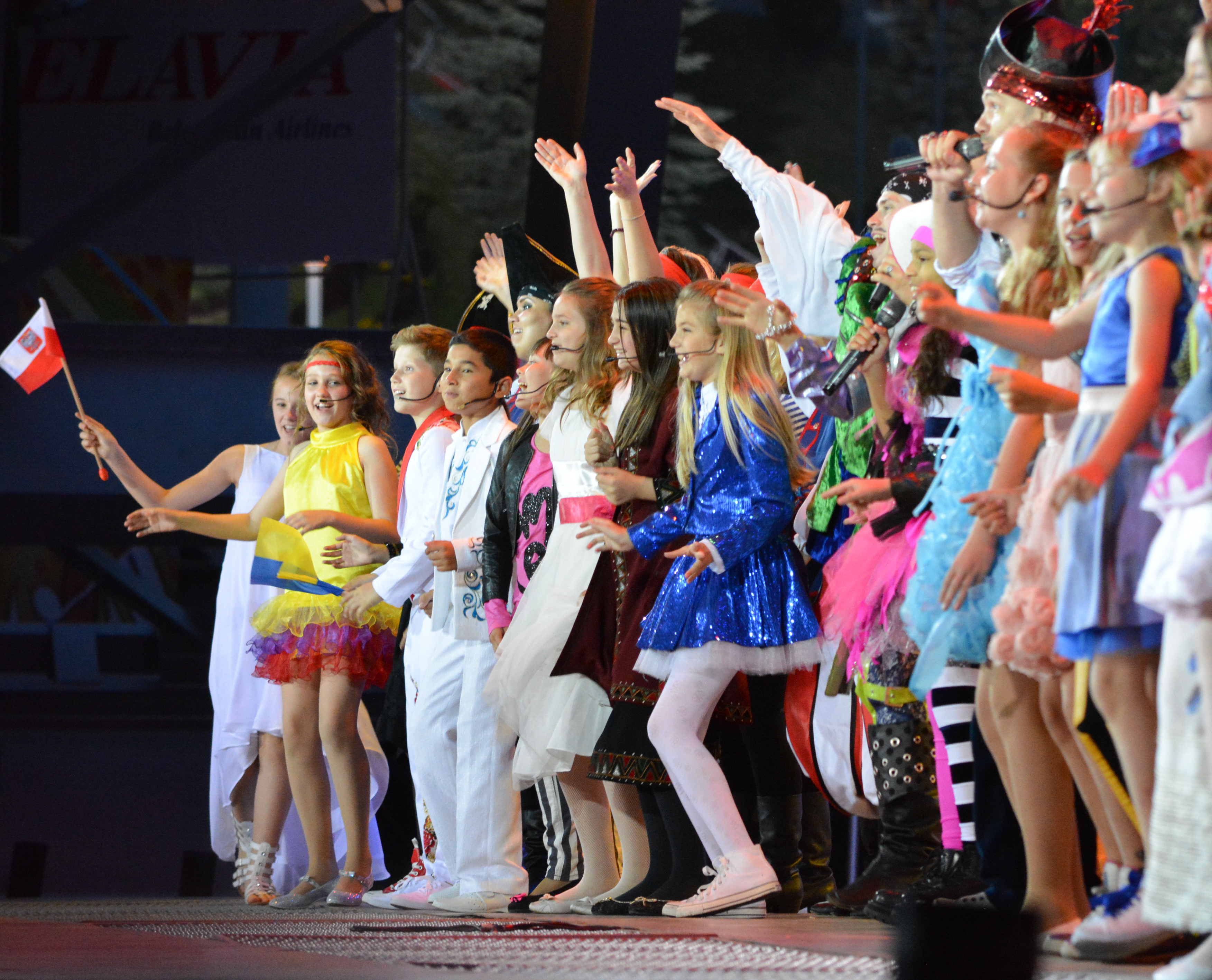 contestants of junior contest "Viciebsk 2014" at the opening of "Slavianski bazar in Viciebsk" 2014 festival